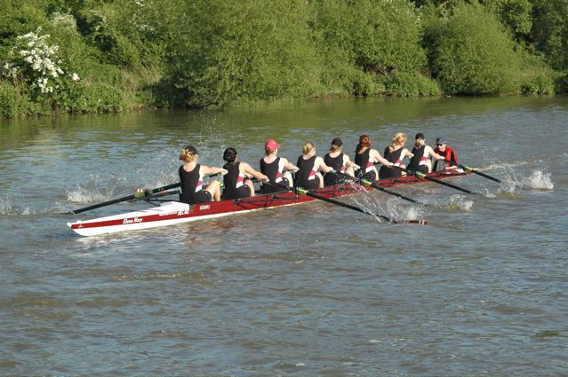 Hertford College Women's 1st VIII chase down Queen's 1st VIII on their way to blades in Summer Eights 2006.